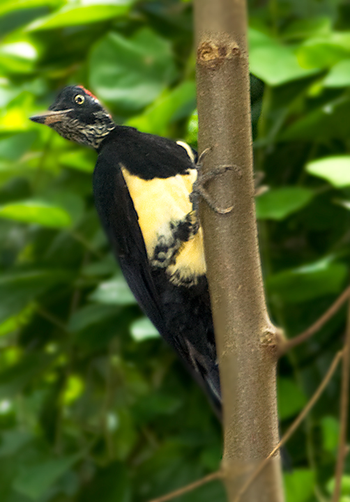 White bellied Woodpecker, female. Location Philippines, which island unknown.